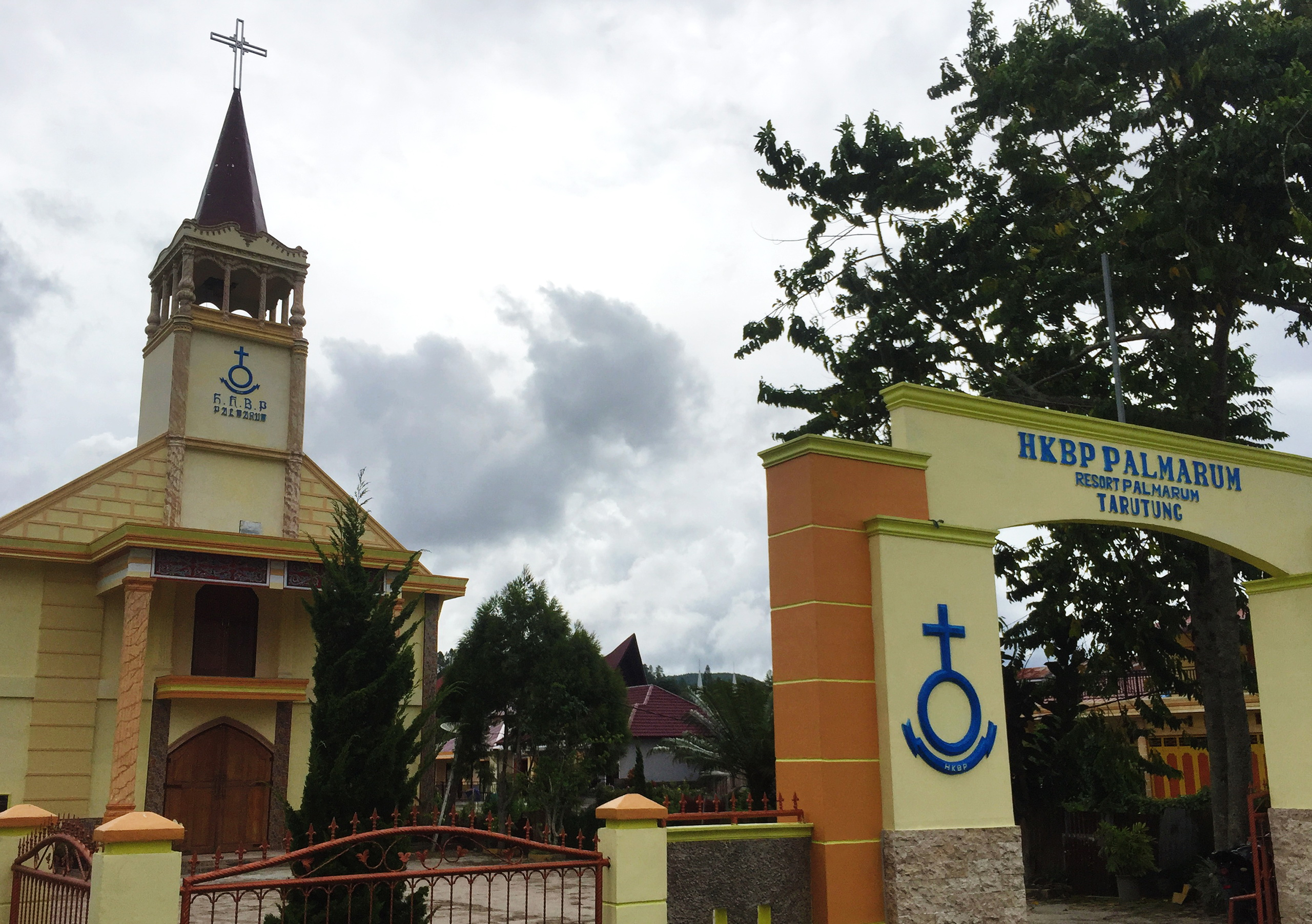 HKBP Palmarum, Church in Hutatoruan VII, Tarutung, North Tapanuli